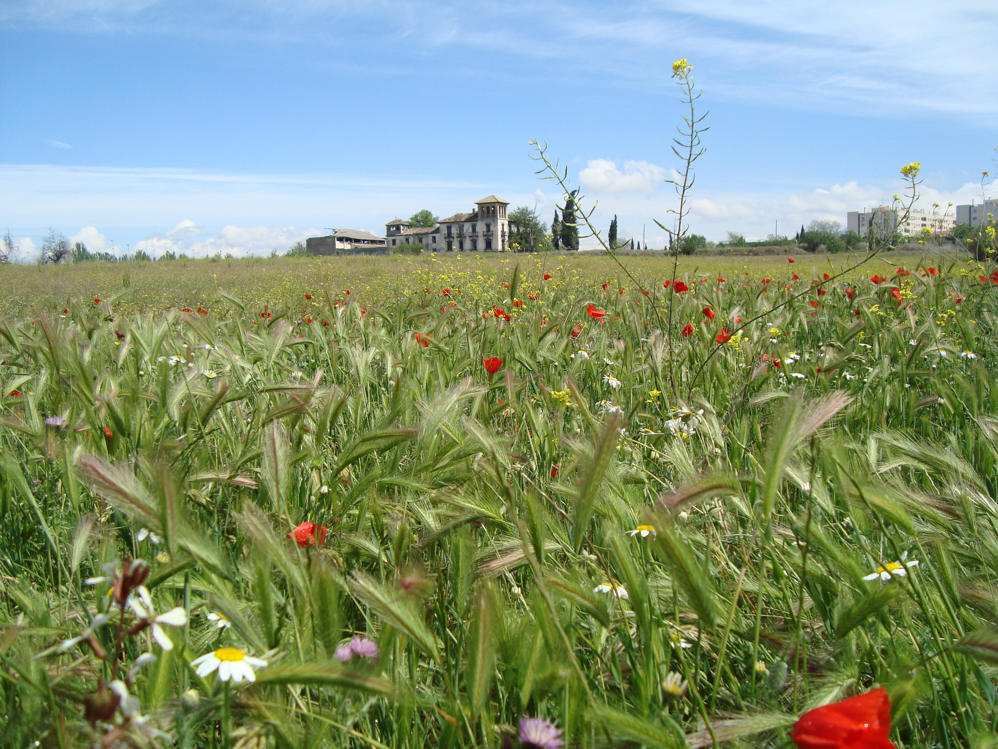 El PN3 y la Casería de los Cipreses en el Barrio de Albayda